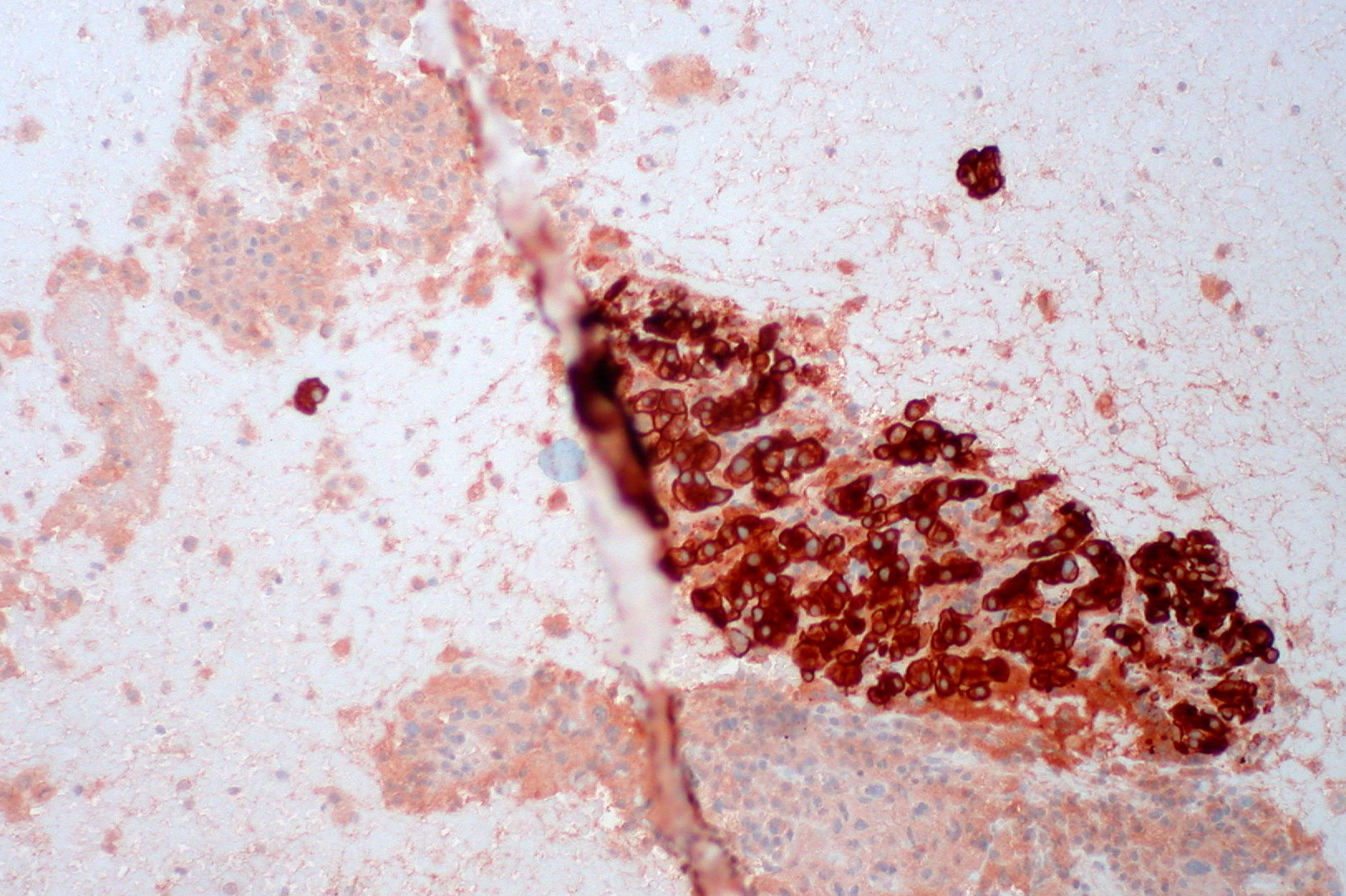 Native liver tissue is strongly positive, while the tumor cells are faintly positive. CAM5.2 can be positive in up to 10% of melanomas. Cytokeratins AE1-AE3 were negative in this case. Pathological and histological images courtesy of Ed Uthman at flickr.